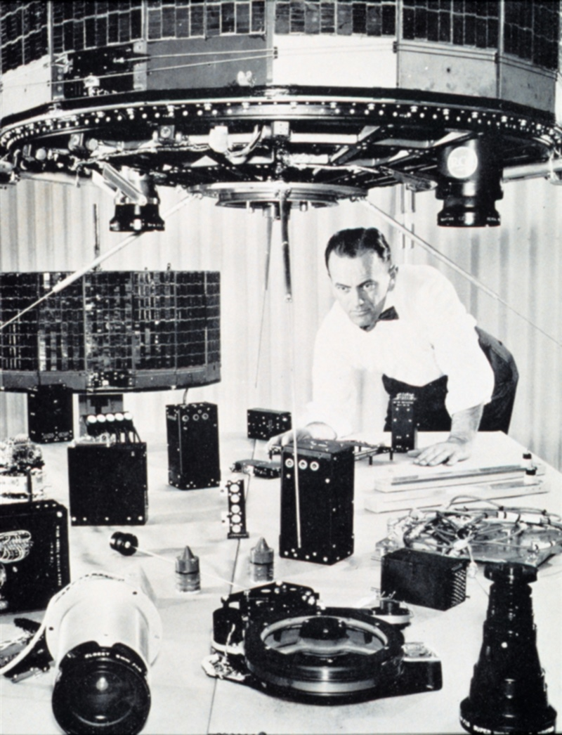 Scientist inspecting early TIROS satellite components. In the immediate foreground are two TV cameras with a tape recorder in between